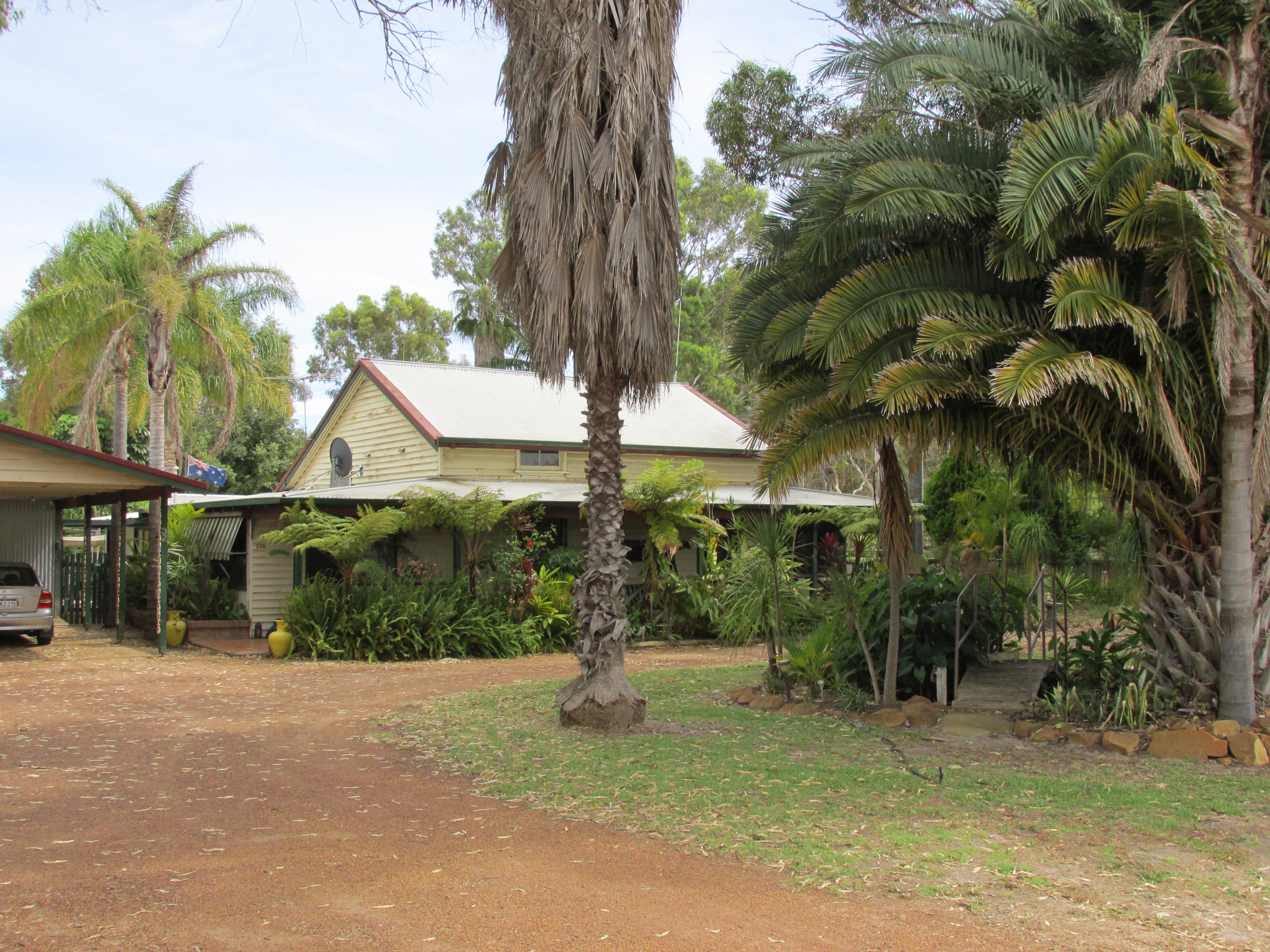 Buildings on the site of the former Muchea Primary School in Muchea, Western Australia.